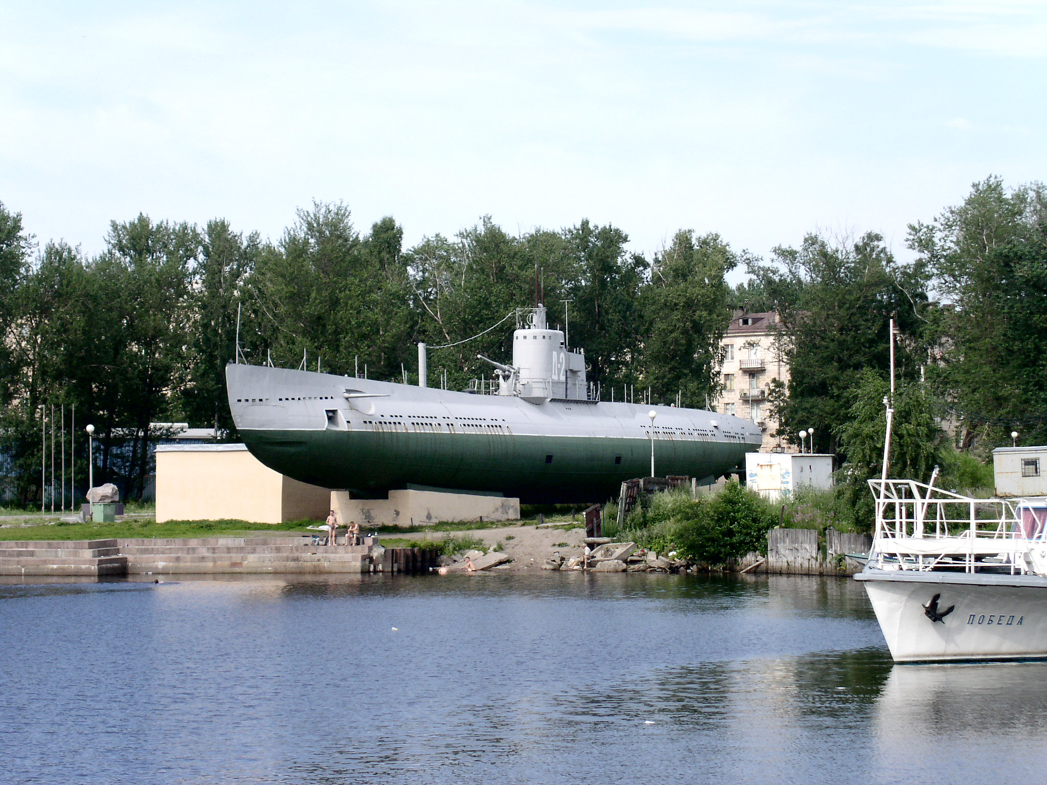 MINOLTA DIGITAL CAMERA